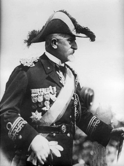 Italian Admiral Diego Simonetti